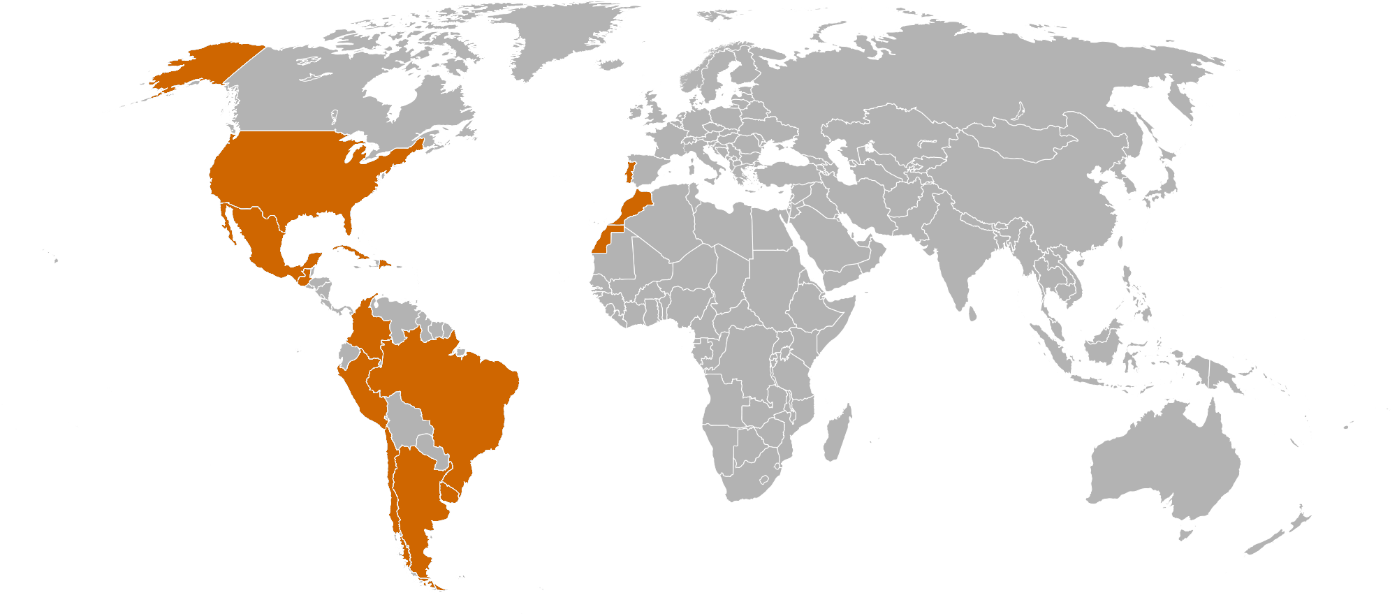 Pabellones de la Exposición Iberoamericana que siguen en pie. Plantilla de